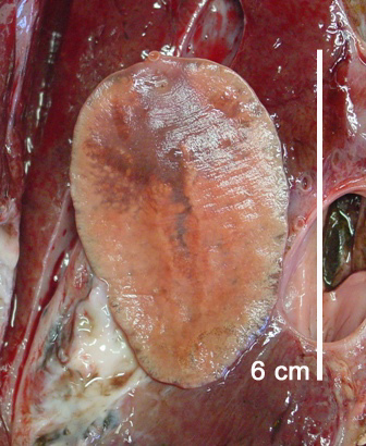 Adult of Fascioloides magna isolated from liver of red deer